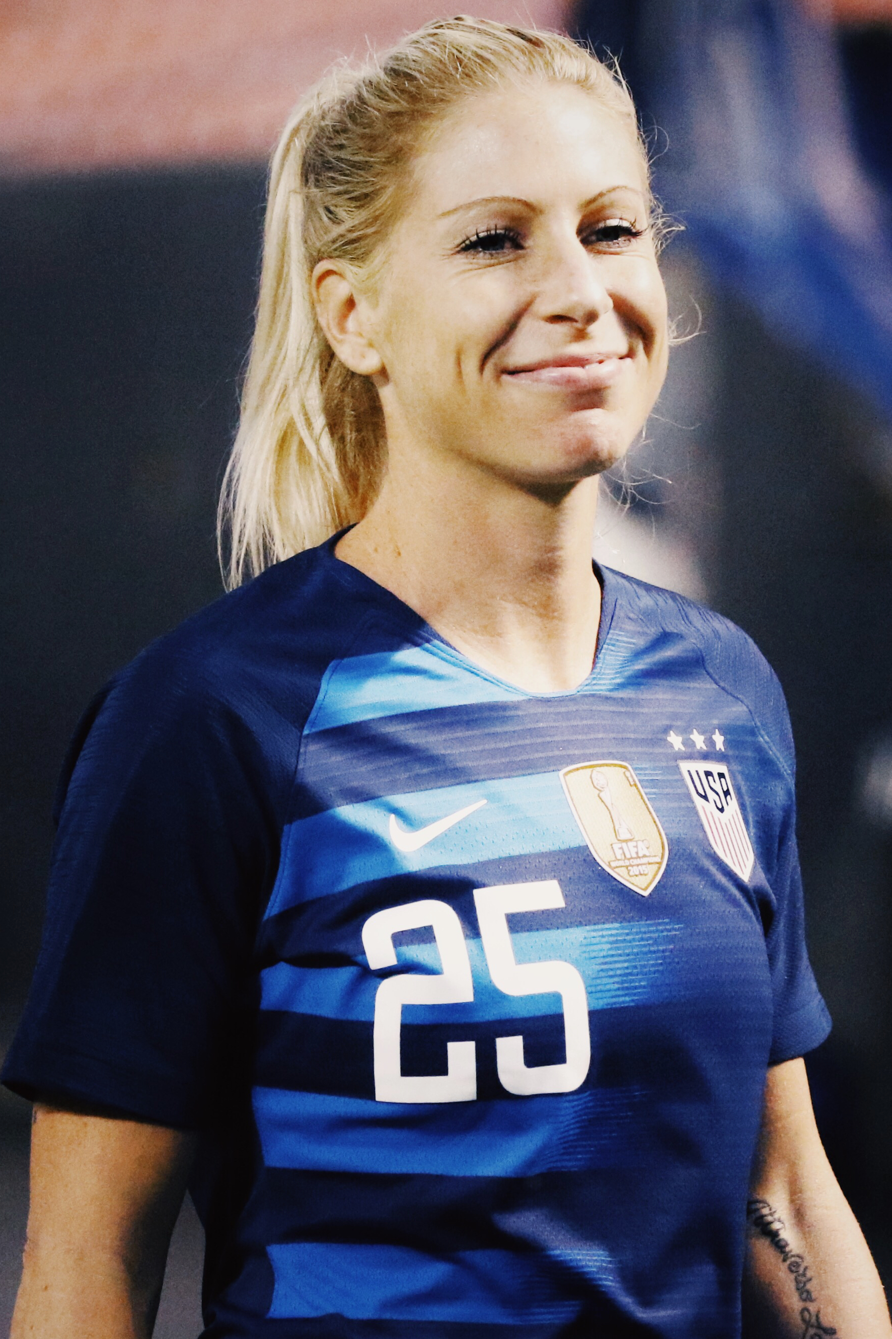 Processed with VSCO with ke1 preset